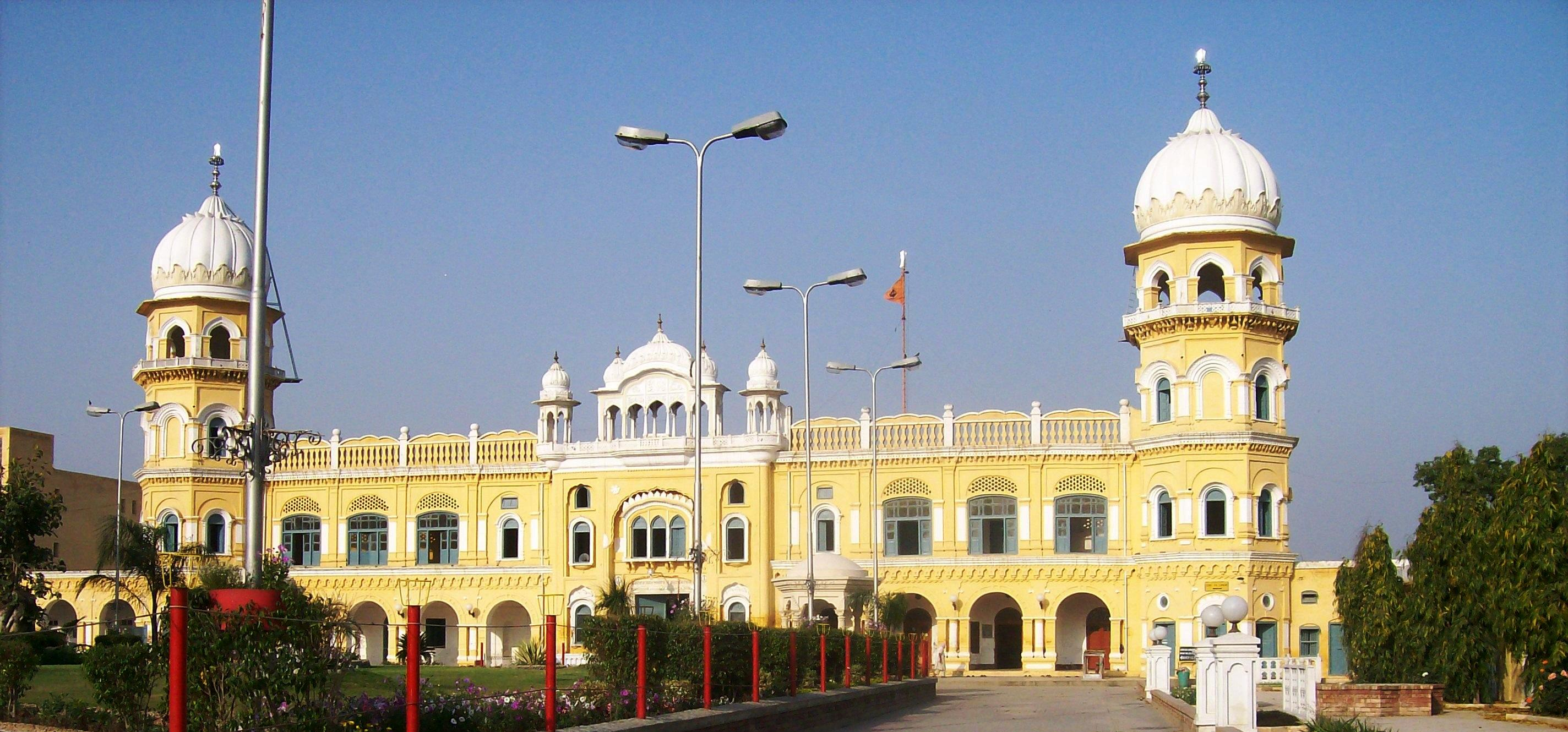 Gurdwara Nankana Sahib (Janam Asthan), in Nankana Sahib, Pakistan.